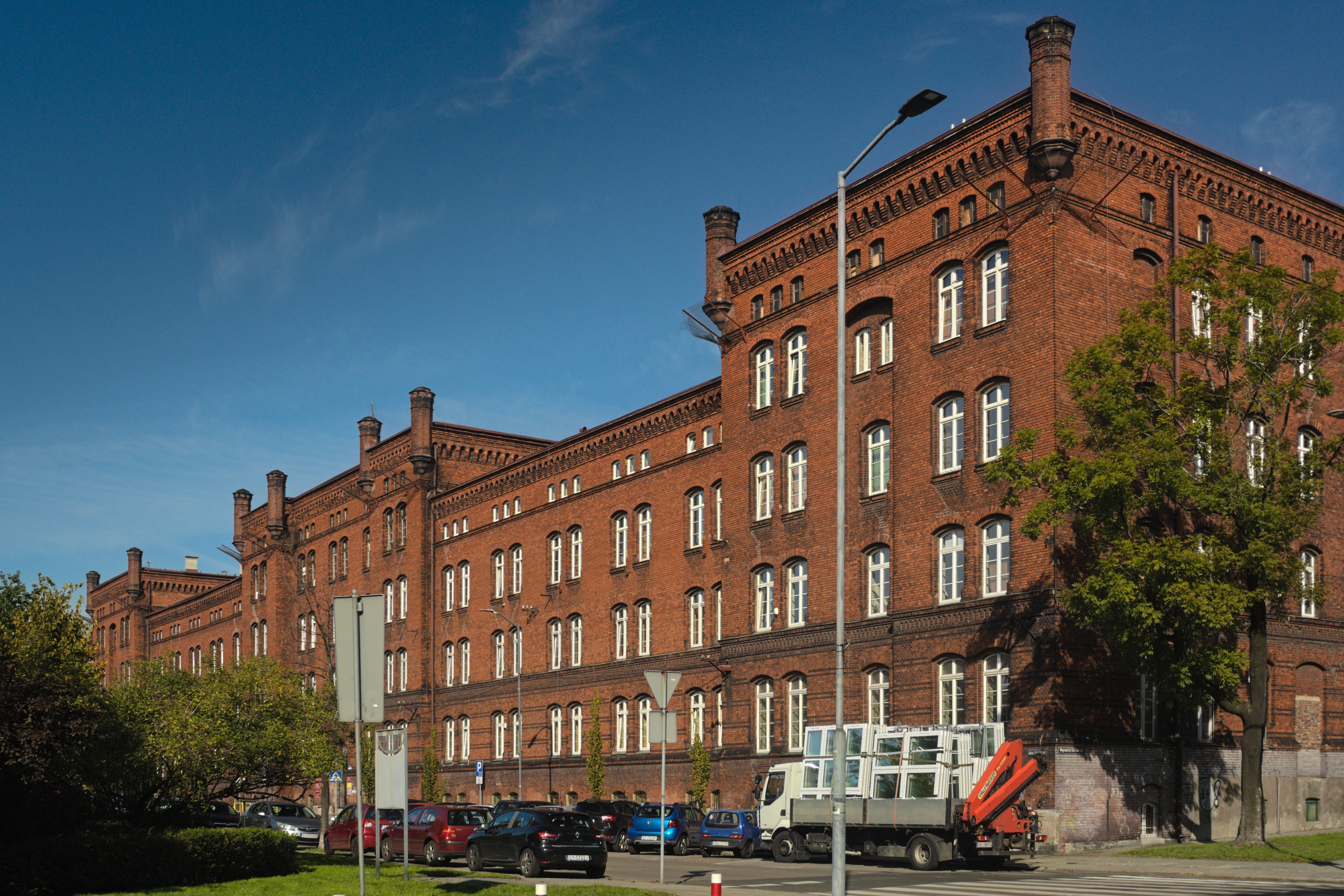 Bytom, 35 Jana Smolenia Street, Poland, former Prussian barracks